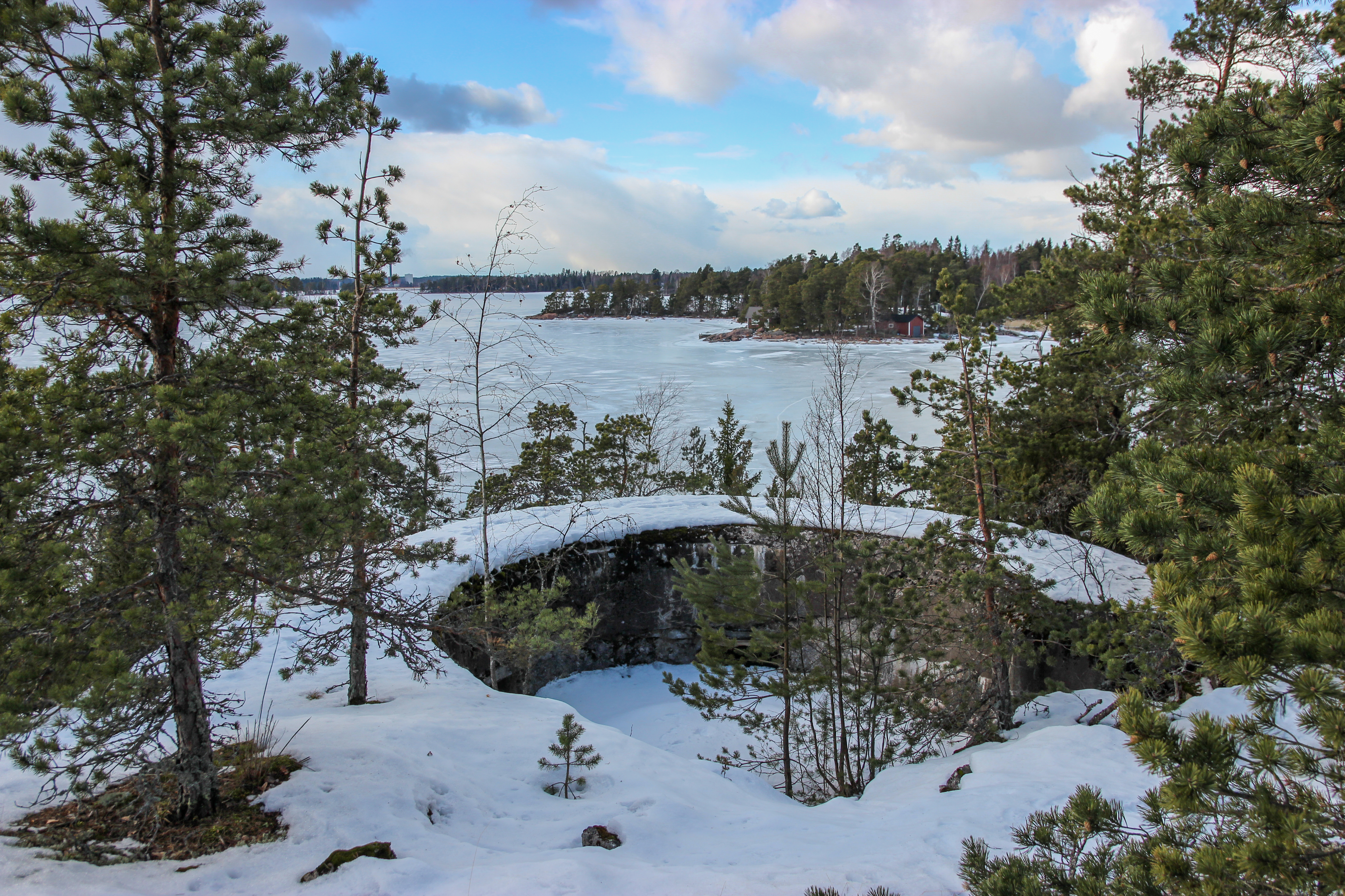 Ruins of a Russian built QF 6-pounder Nordenfelt coastal battery on Pyöräsaari, Espoo. Battery was part of the Krepost Sveaborg fortification works around Helsinki.